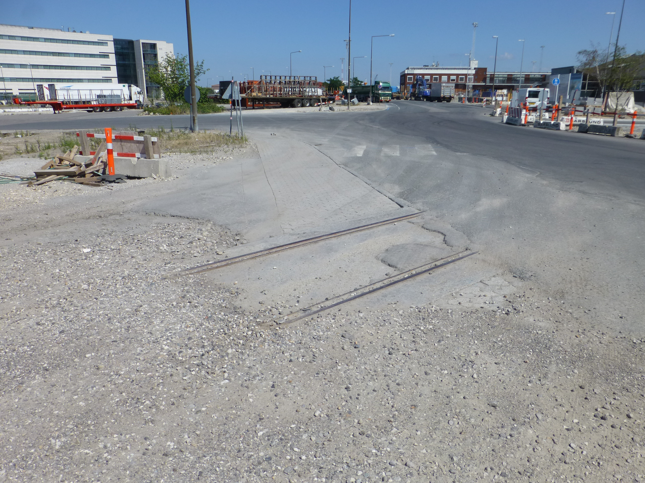 Leftovers from the harbour railway Frihavnsjernbanen at Southamptongade in Nordhavn in Copenhagen.